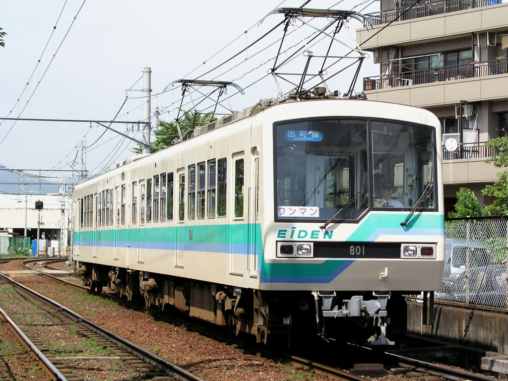 Eizan Electric Railway Series Deo 800 running near Demachiyanagi Station Taken in July 2006